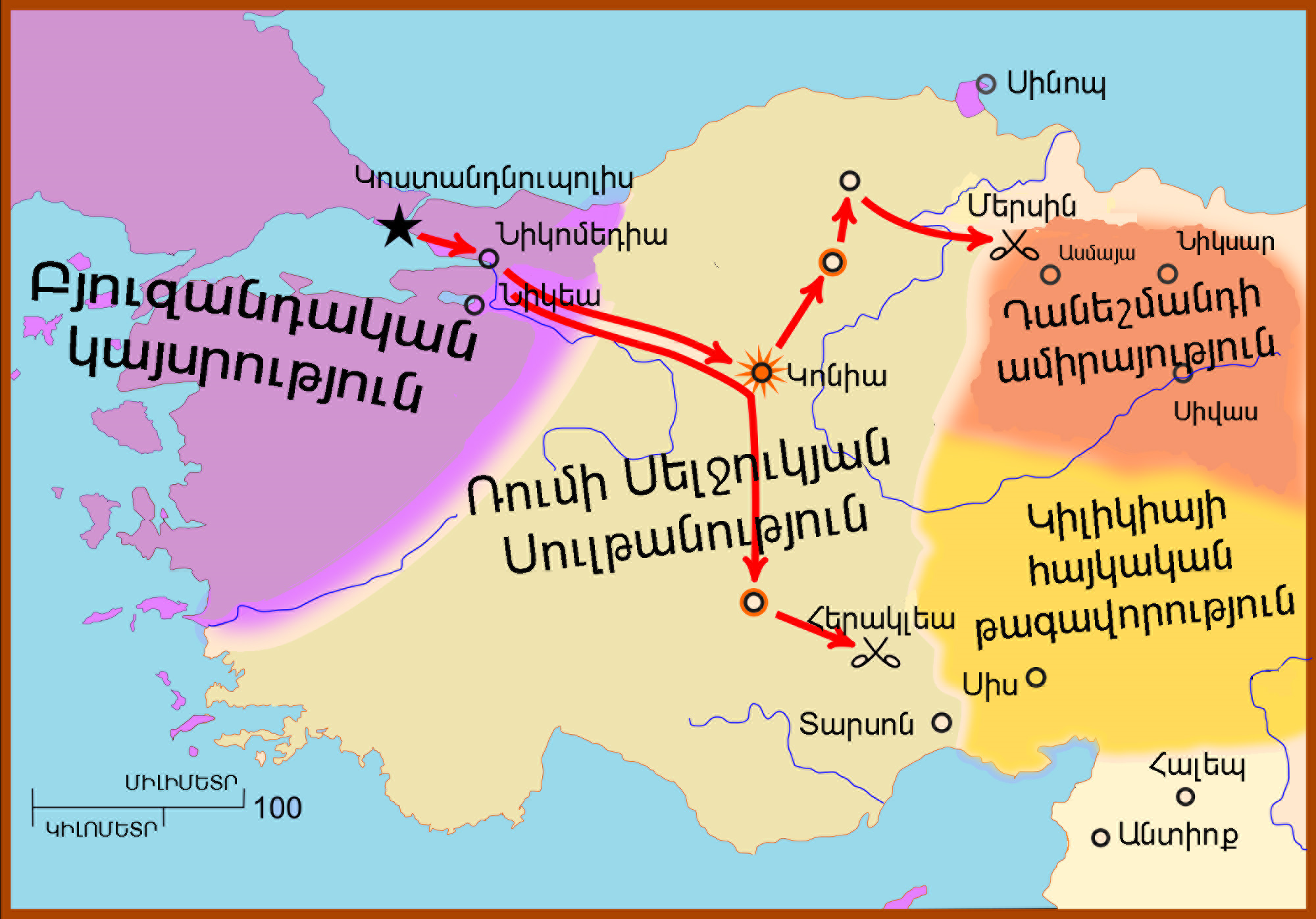 Eastern Anatolia and cross the state in 1101